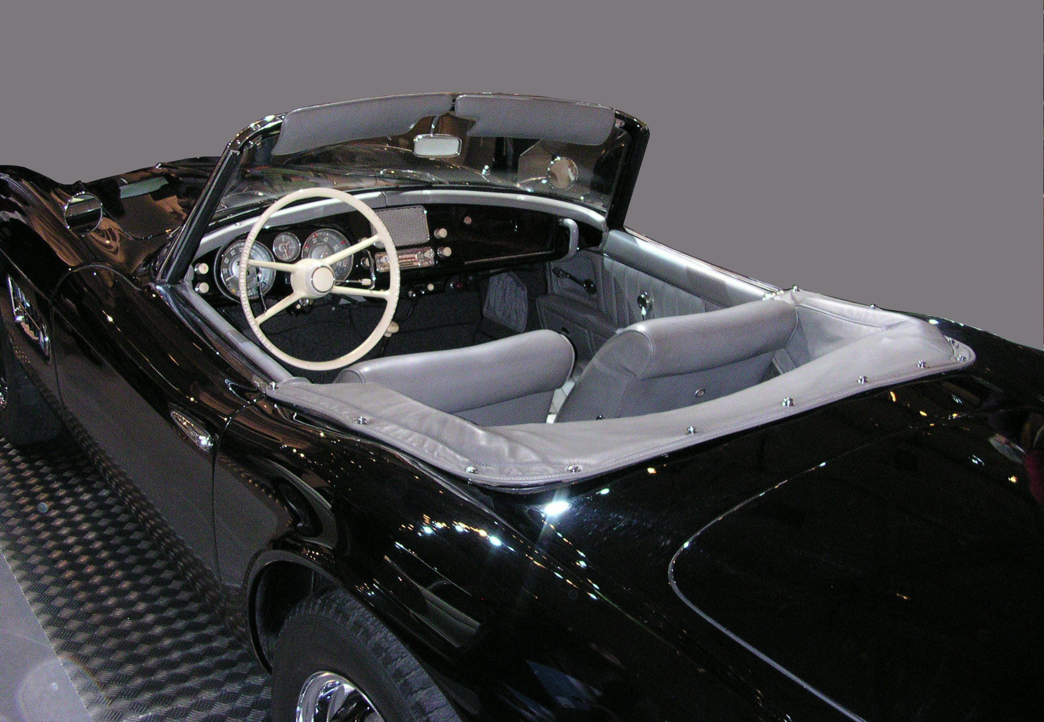 Essen Techno-Classica 2007, BMW 507